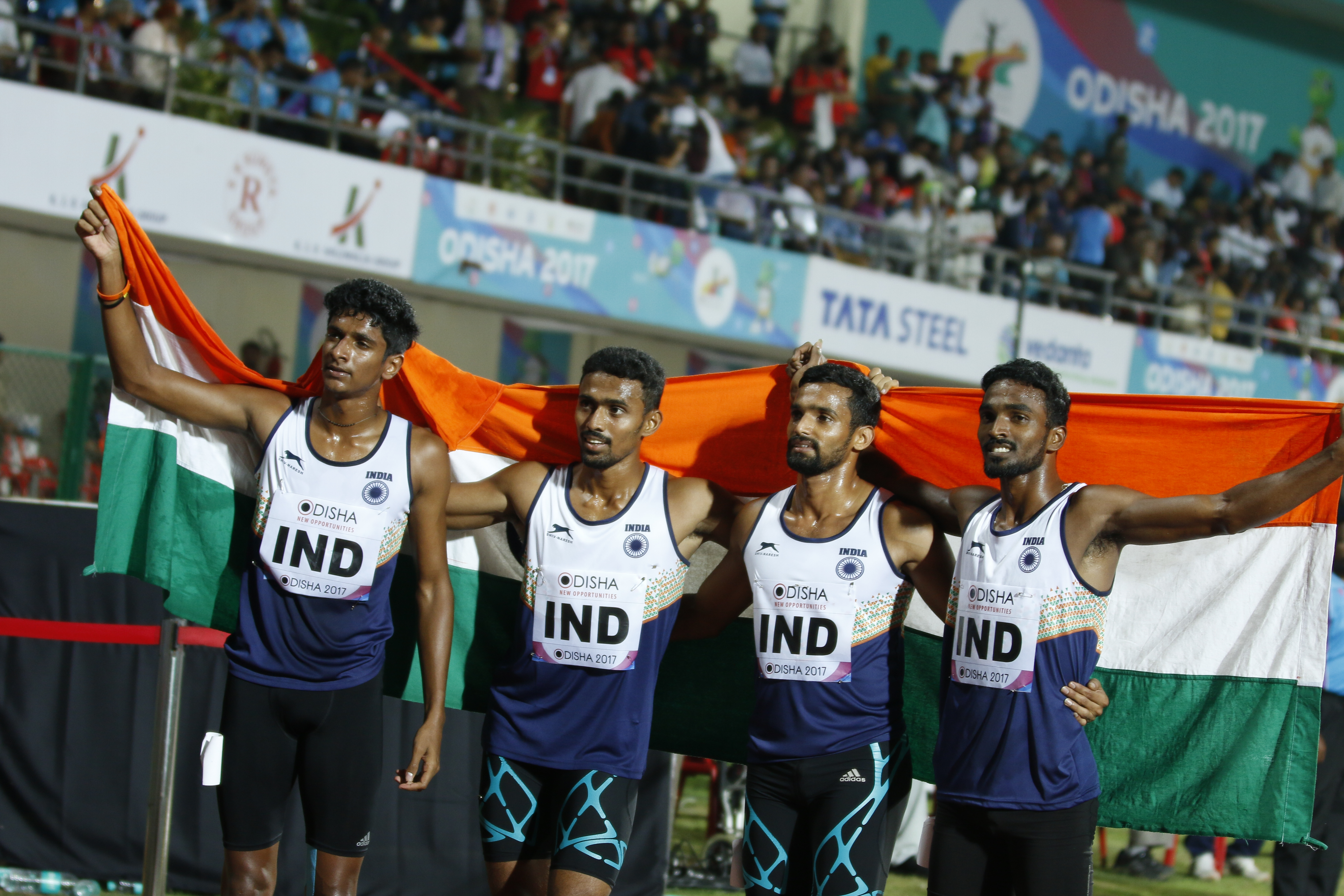 Athletes during 22nd Asian Athletics Championships in Bhubaneswar.